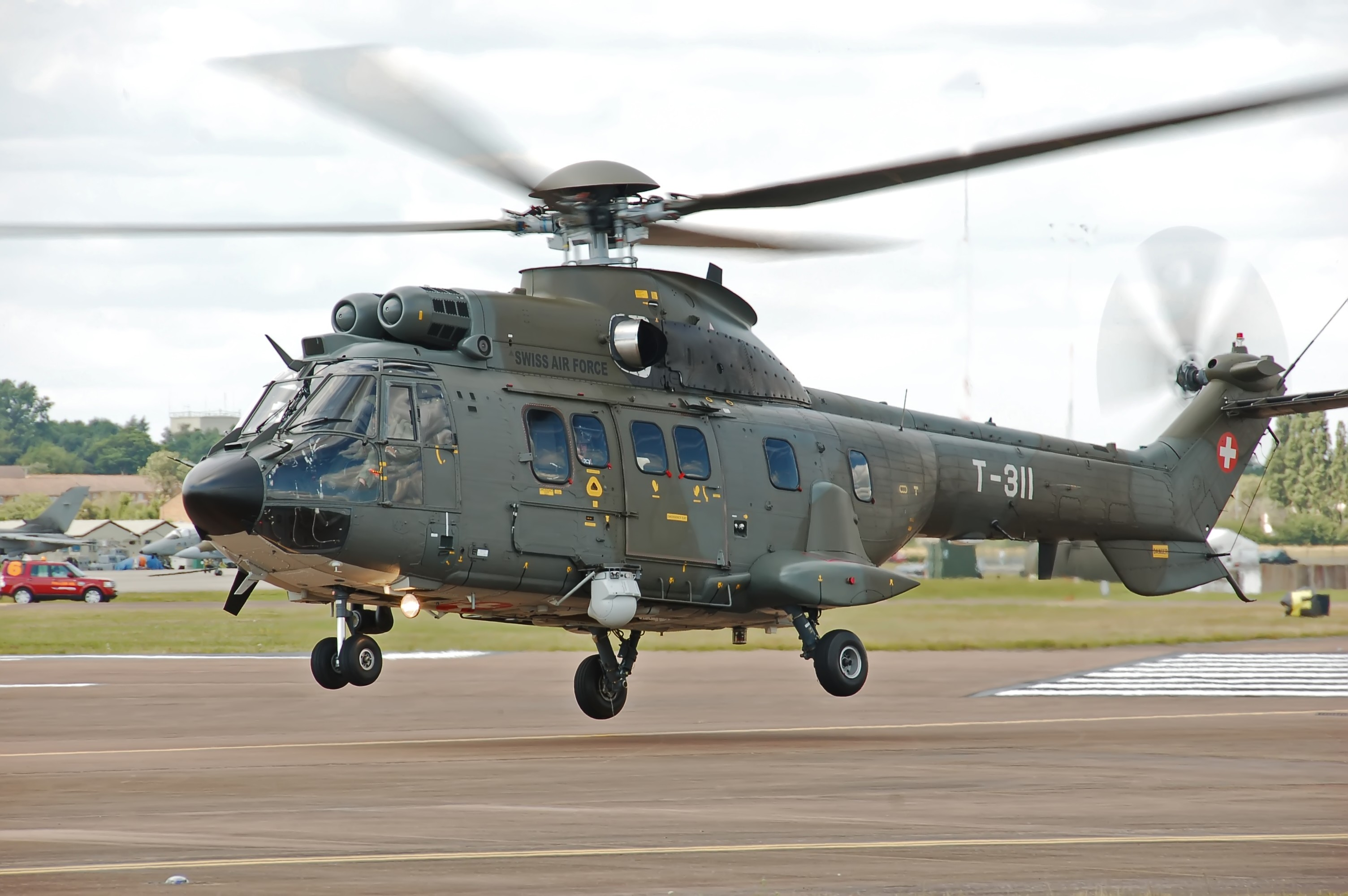 Swiss Air Force Airbus Helicopters AS-332M1 Super Puma (code T-311) arrives for the 2014 Royal International Air Tattoo, RAF Fairford, Gloucestershire, England.